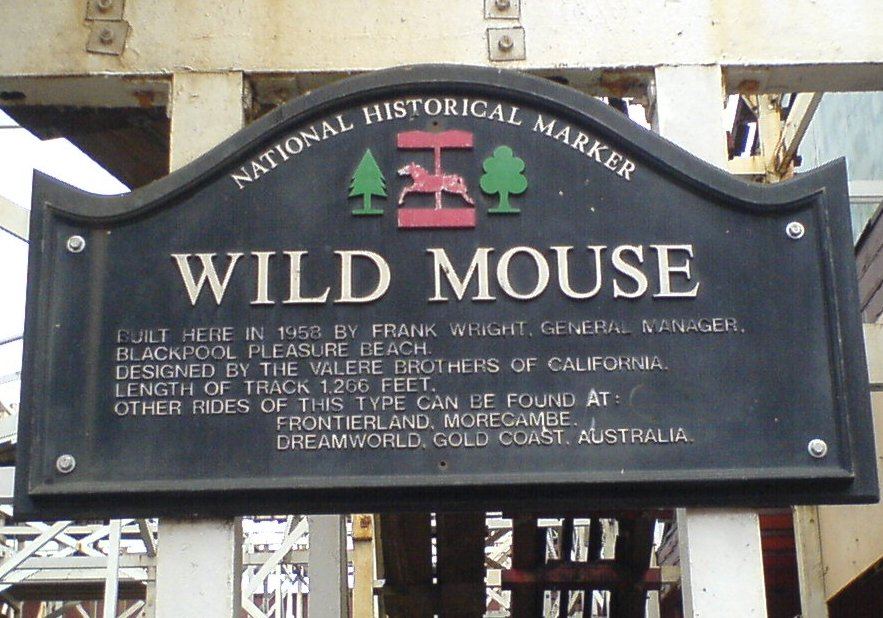 The Blackpool Pleasure Beach Wild Mouse historic plaque, June 14th 2007